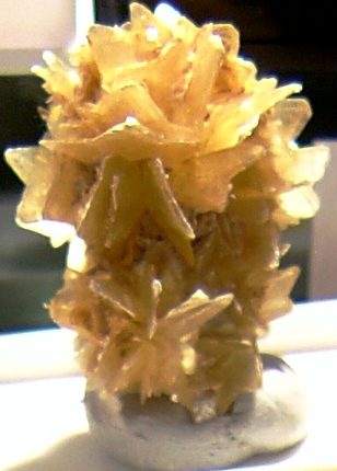 Muscovite I took this photo in october 2005